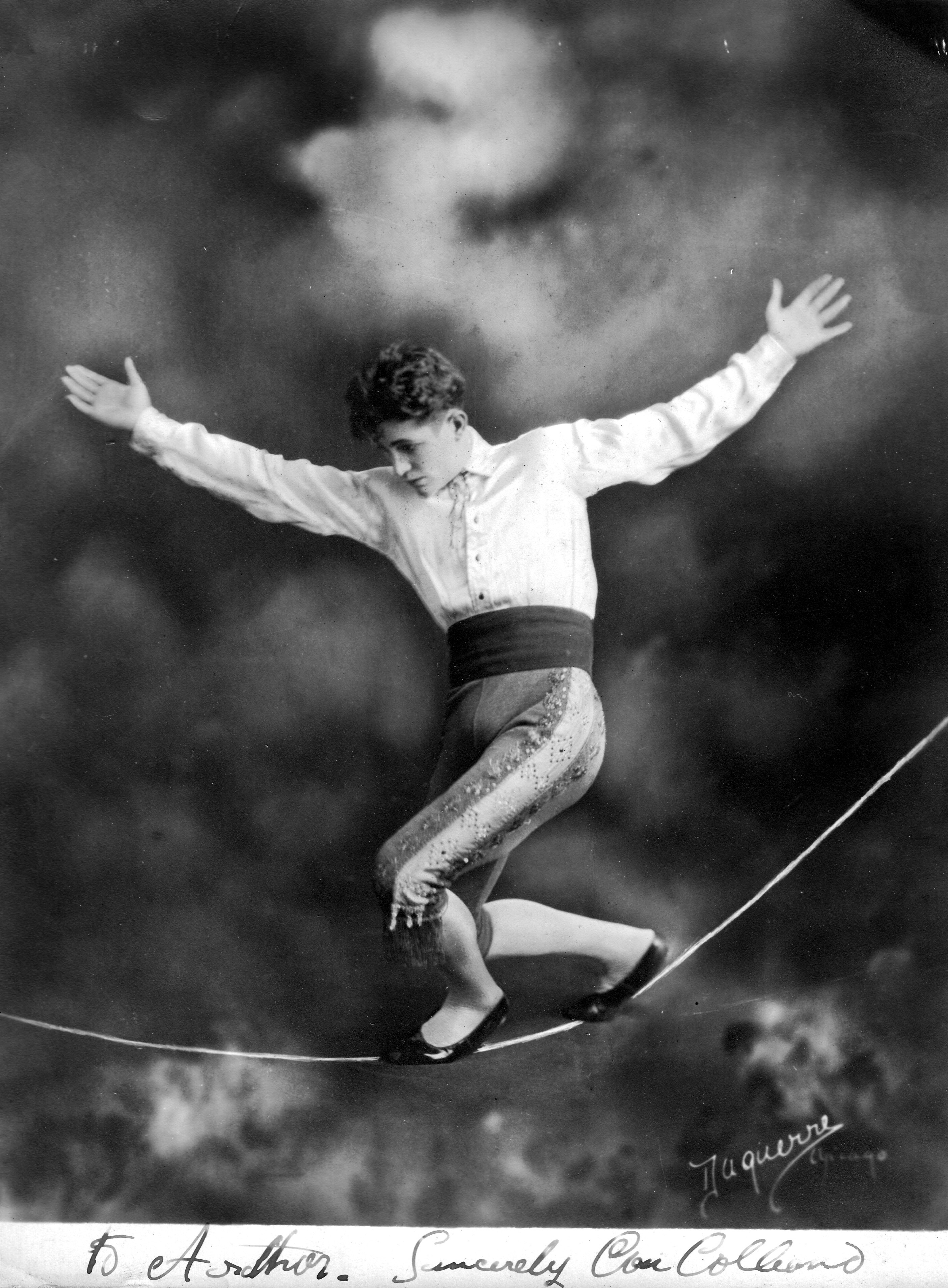 An image of Con Colleano Con_Colleano on a slack-wire early in his career. This was scanned from a signed original photographic print estimated circa 1920.